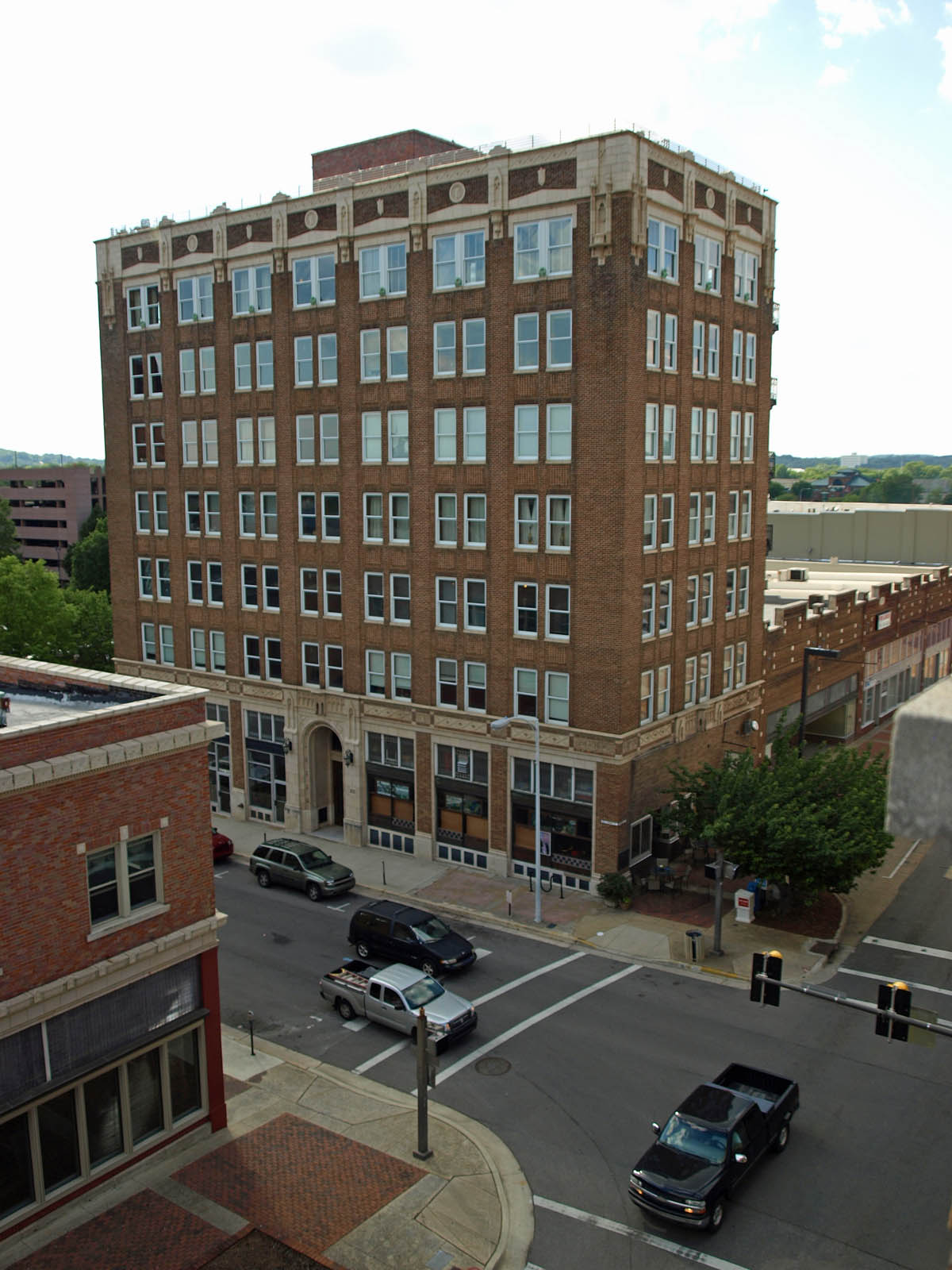 The Terry Hutchens Building in Huntsville, Alabama; listed on the National Register of Historic Places.